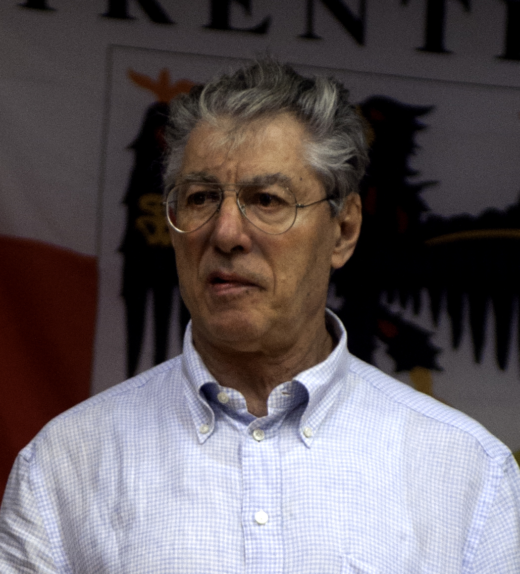 Umberto Bossi, founding member and leader of the Italian rightwing and separatist political party called Lega Nord (northern league)